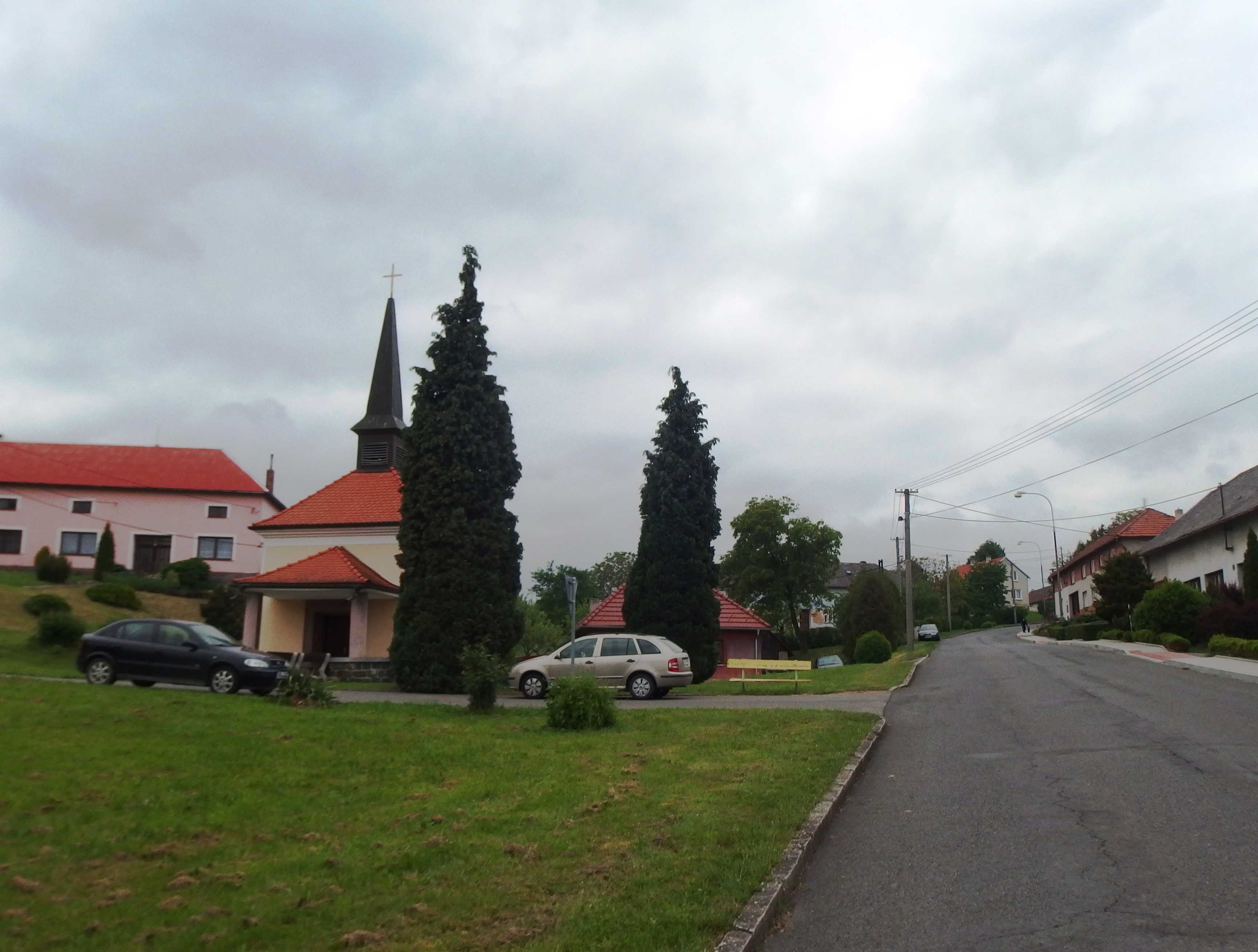 Radotín, Přerov District, Czech Republic.